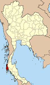 Map of Thailand highlighting Phang Nga province